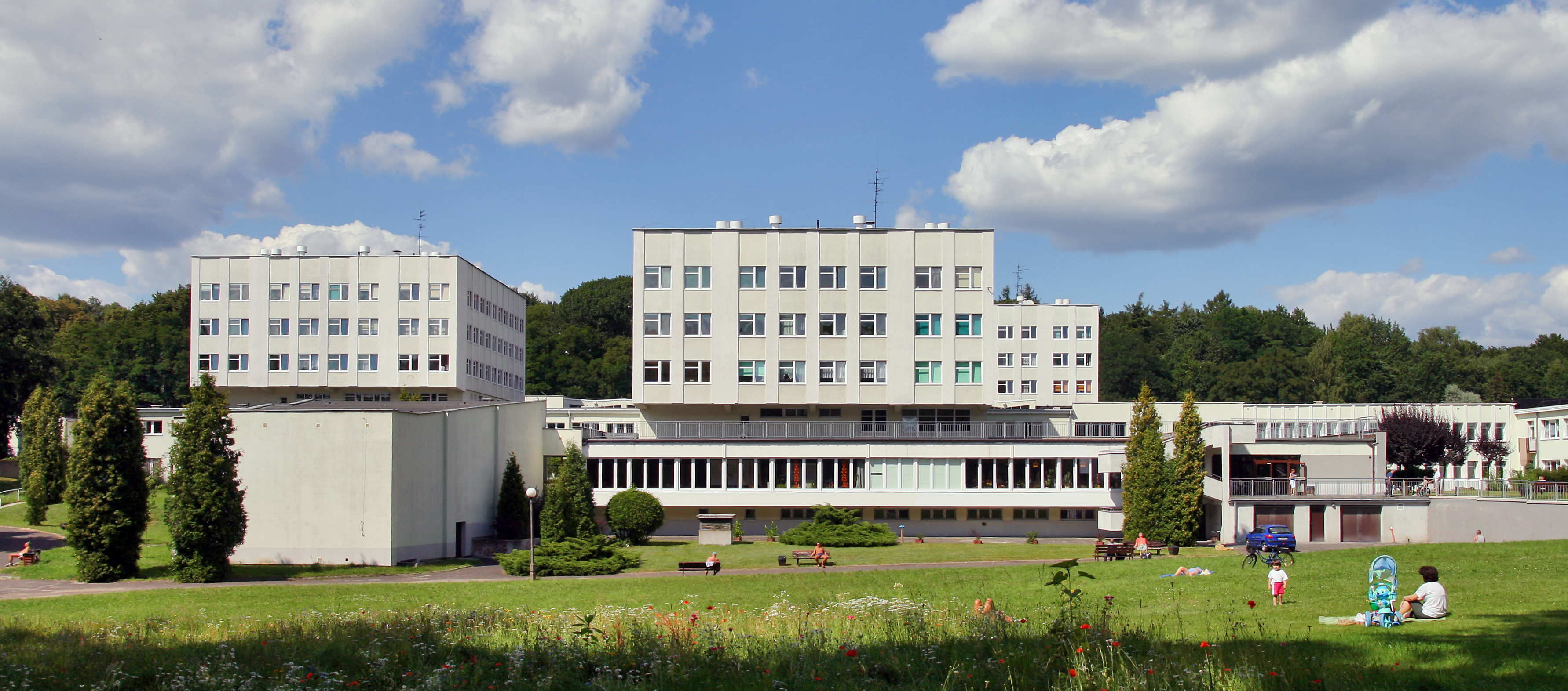 Upper Silesian Rehabilitation Center "Repty" in Tarnowskie Góry (Poland).